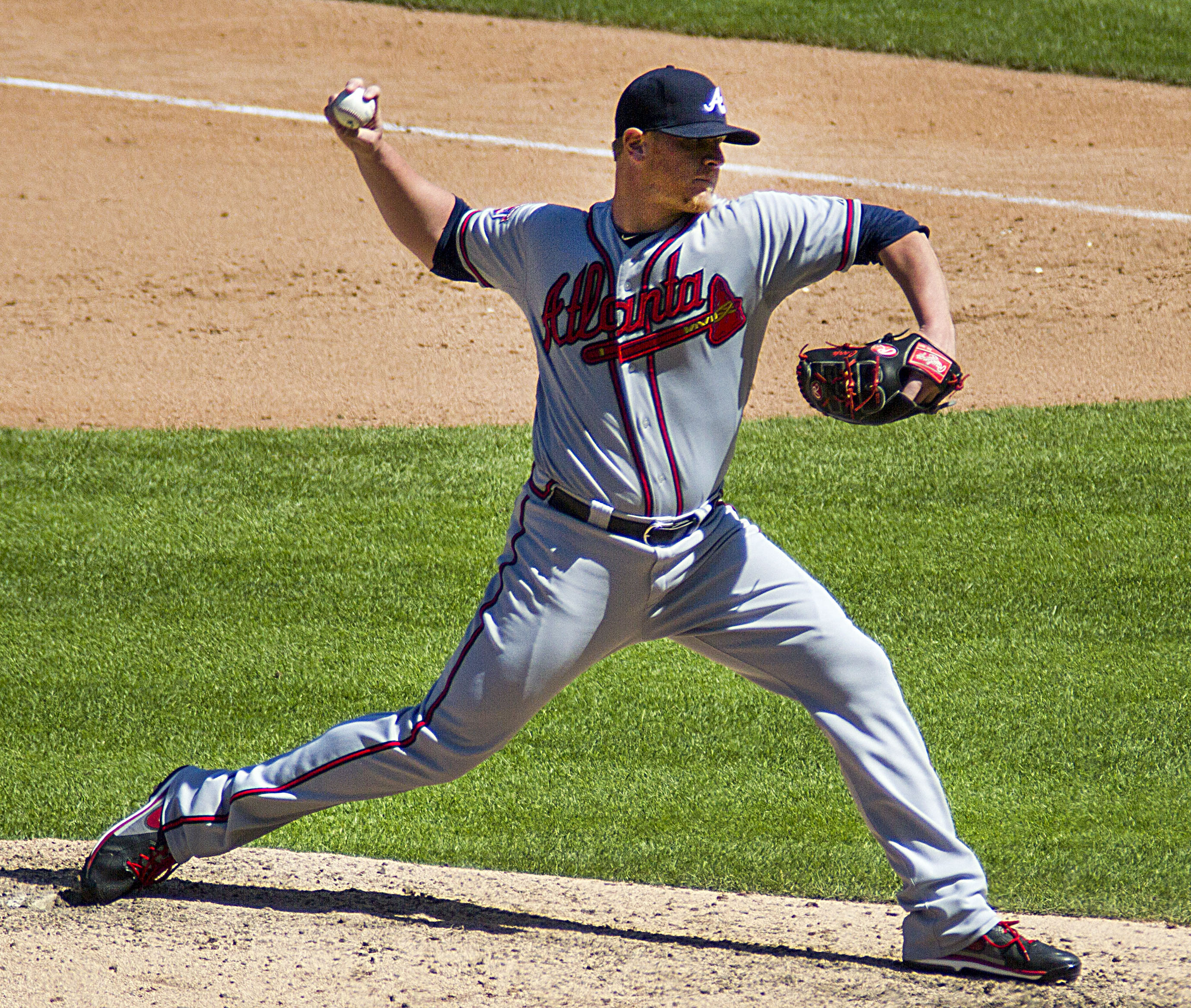 David Carpenter Atlanta Braves pitcher2014